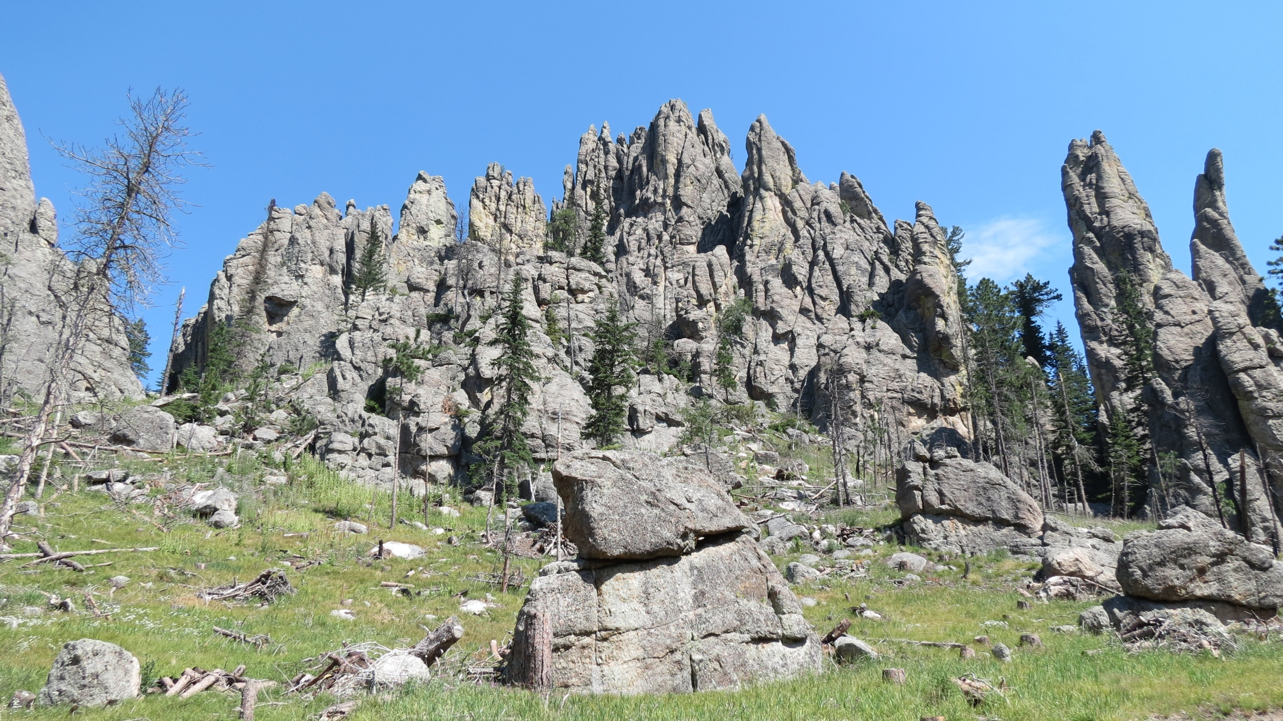 Needles in Black Hills, South Dakota.